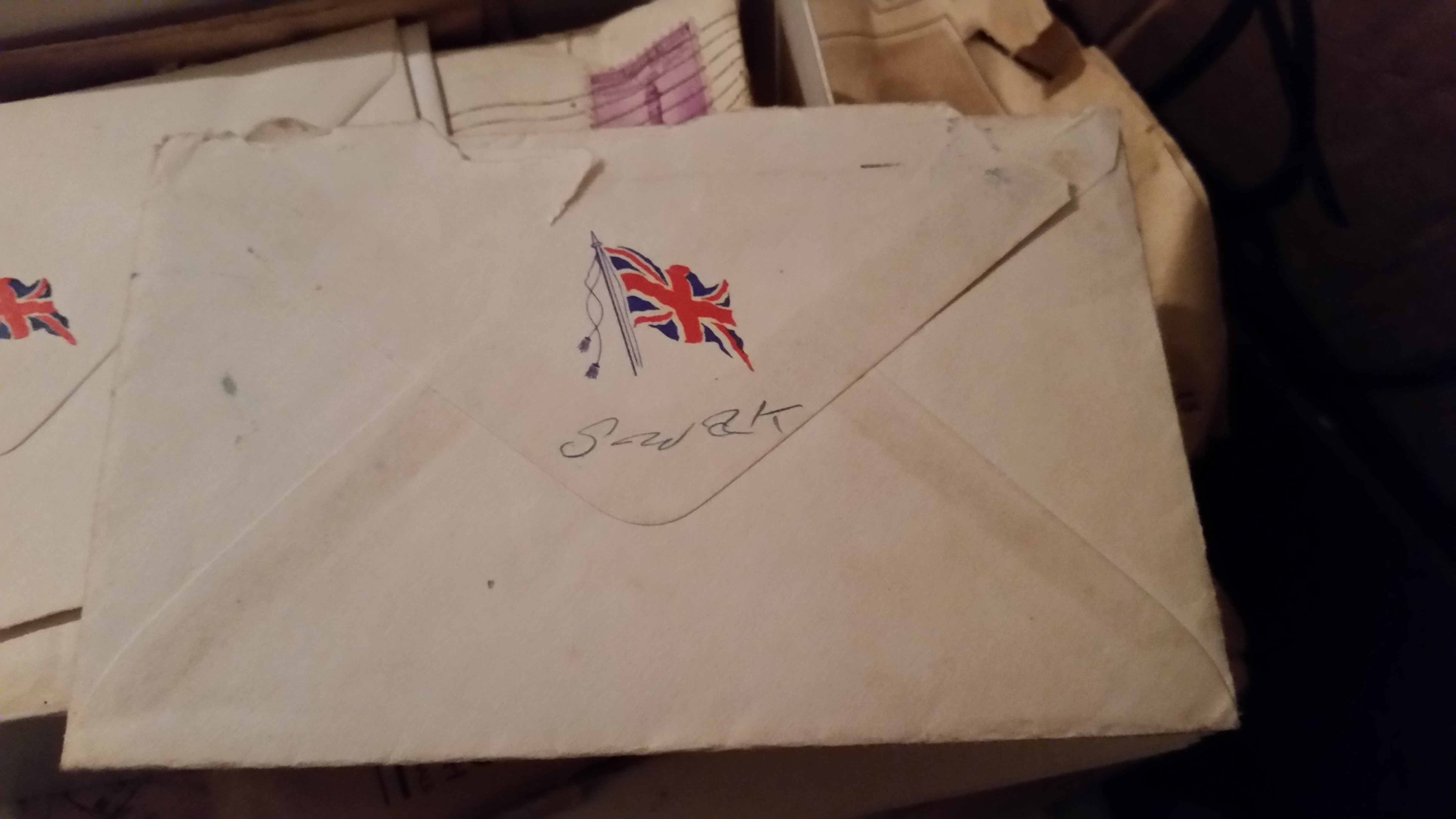 SWAK written on the back of a letter. Letter mailed in 1942